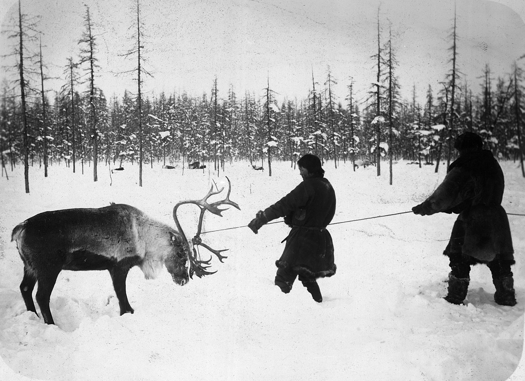 They Caught a Reindeer